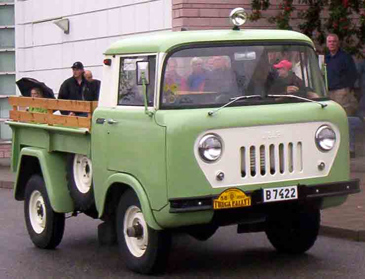 Willys FC150 Truck 1963